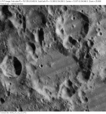 LO-IV-095H Gemma Frisius is in the center. The 46-km crater to its northeast is Goodacre. Many named lettered craters associated with both are also visible. The most prominent is probably the deeply-shadowed 28-km Gemma Frisius D, just outside the west rim of Gemma Frisius. Part of the northwest floor of 68-km Gemma Frisius A is visible in the lower right corner.